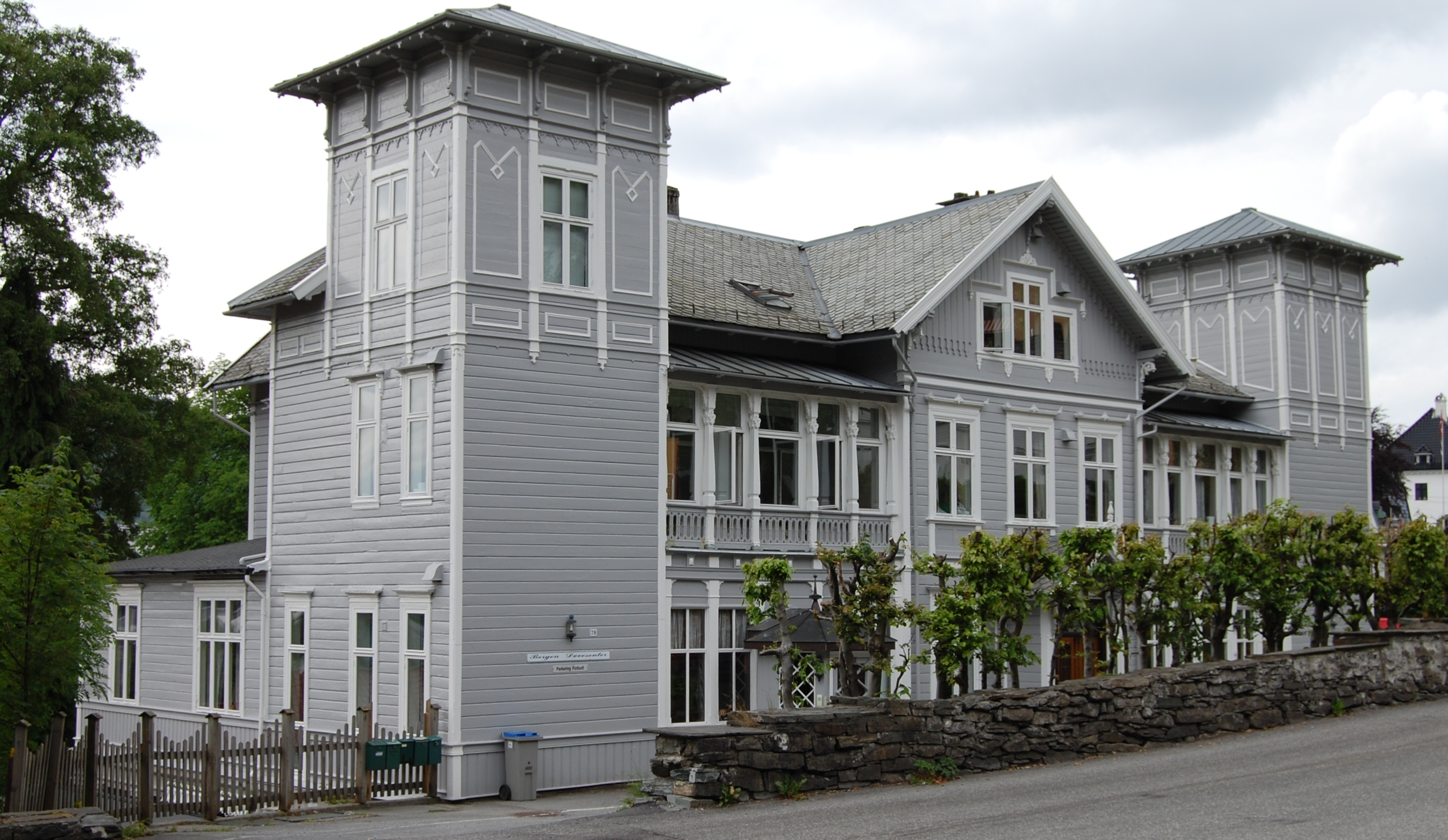 Villa for Peter Jebsen (1869), Kalfarveien 77, Bergen, Norway. Architect: Franz Wilhelm Schiertz.